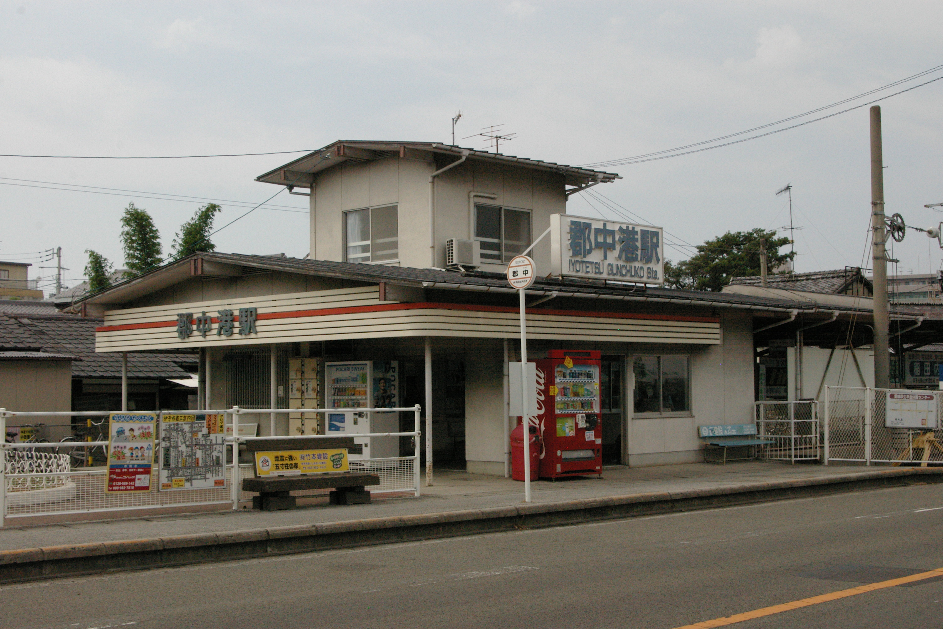 Iyo Railway Gunchuko Station